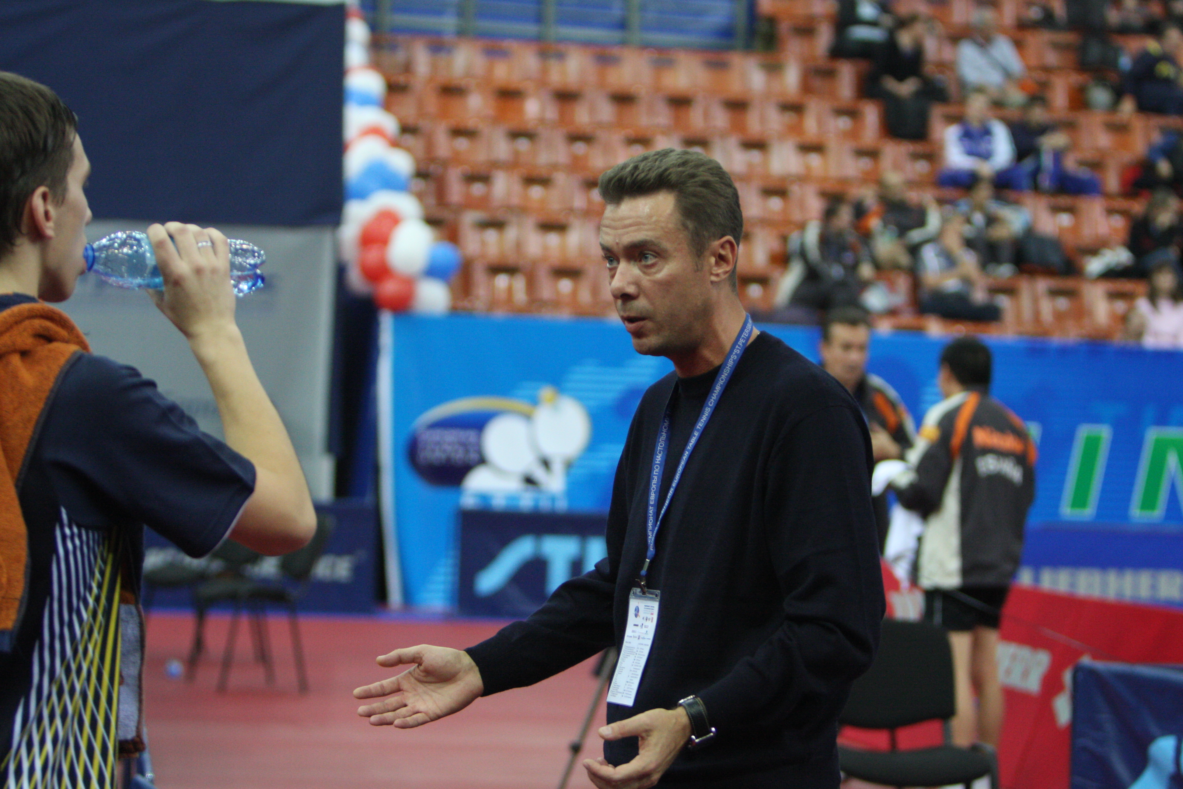 Andrey Mazunov in 2008